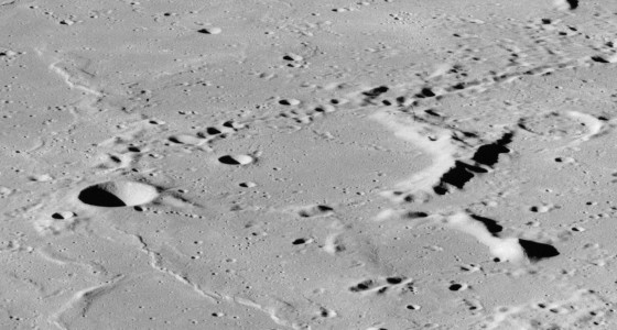 Oblique view of Gould, on the moon, facing south. Sun elevation 14 deg., spacecraft altitude 119 km.